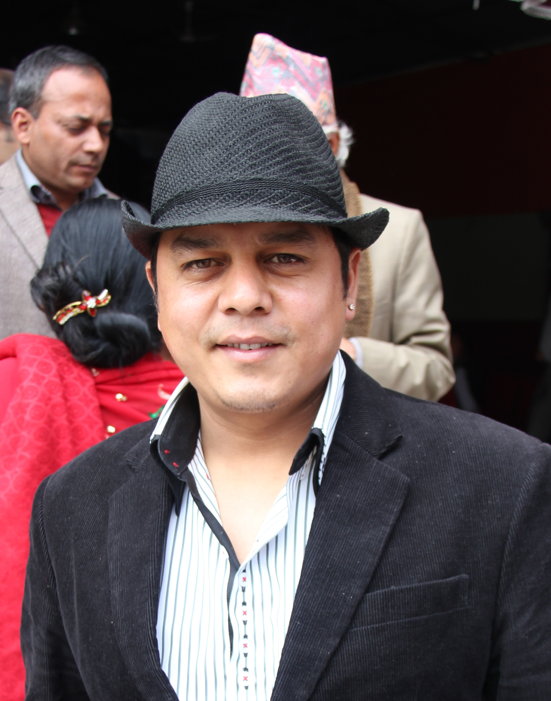 Dilip Rayamajhi in Kathmandu January, 2014